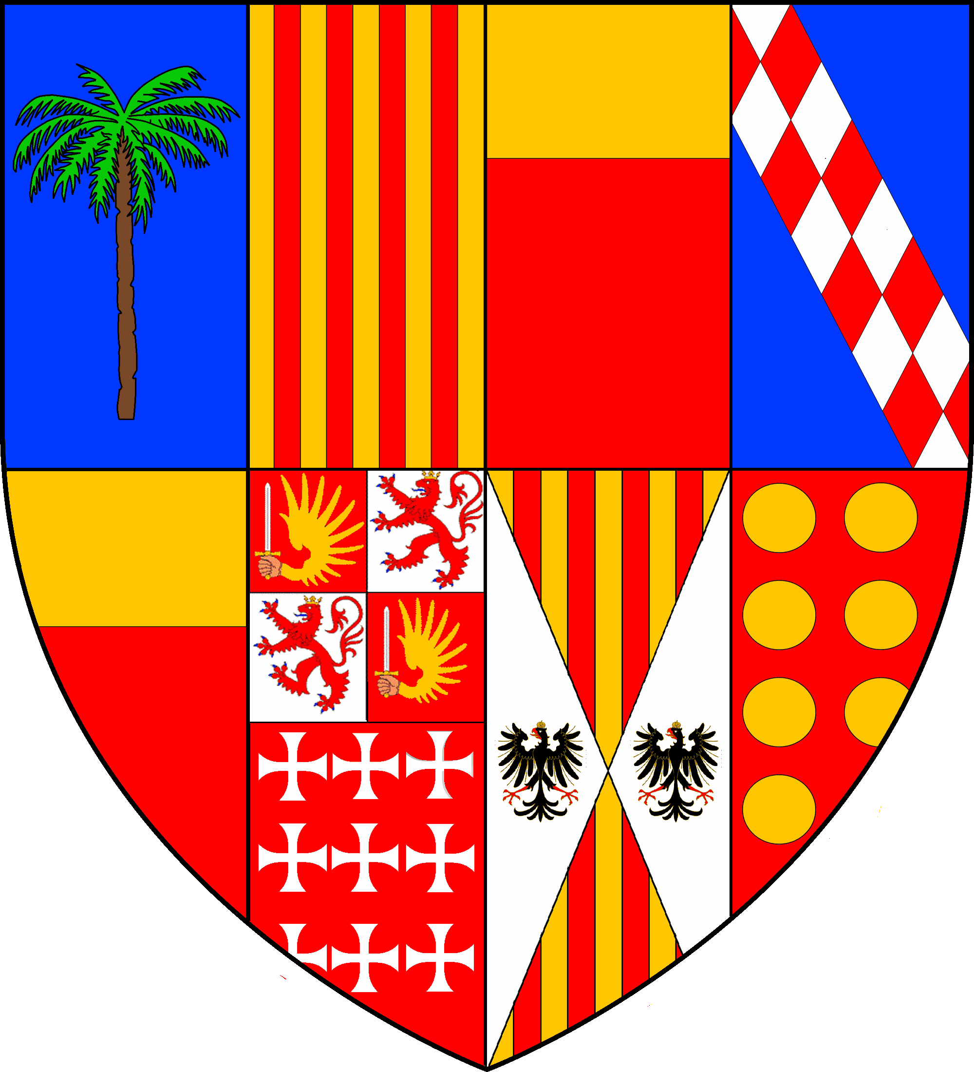 Escudo de Armas de la familia Tagliavía-de Aragón (ó bién Aragón-Tagliavía)